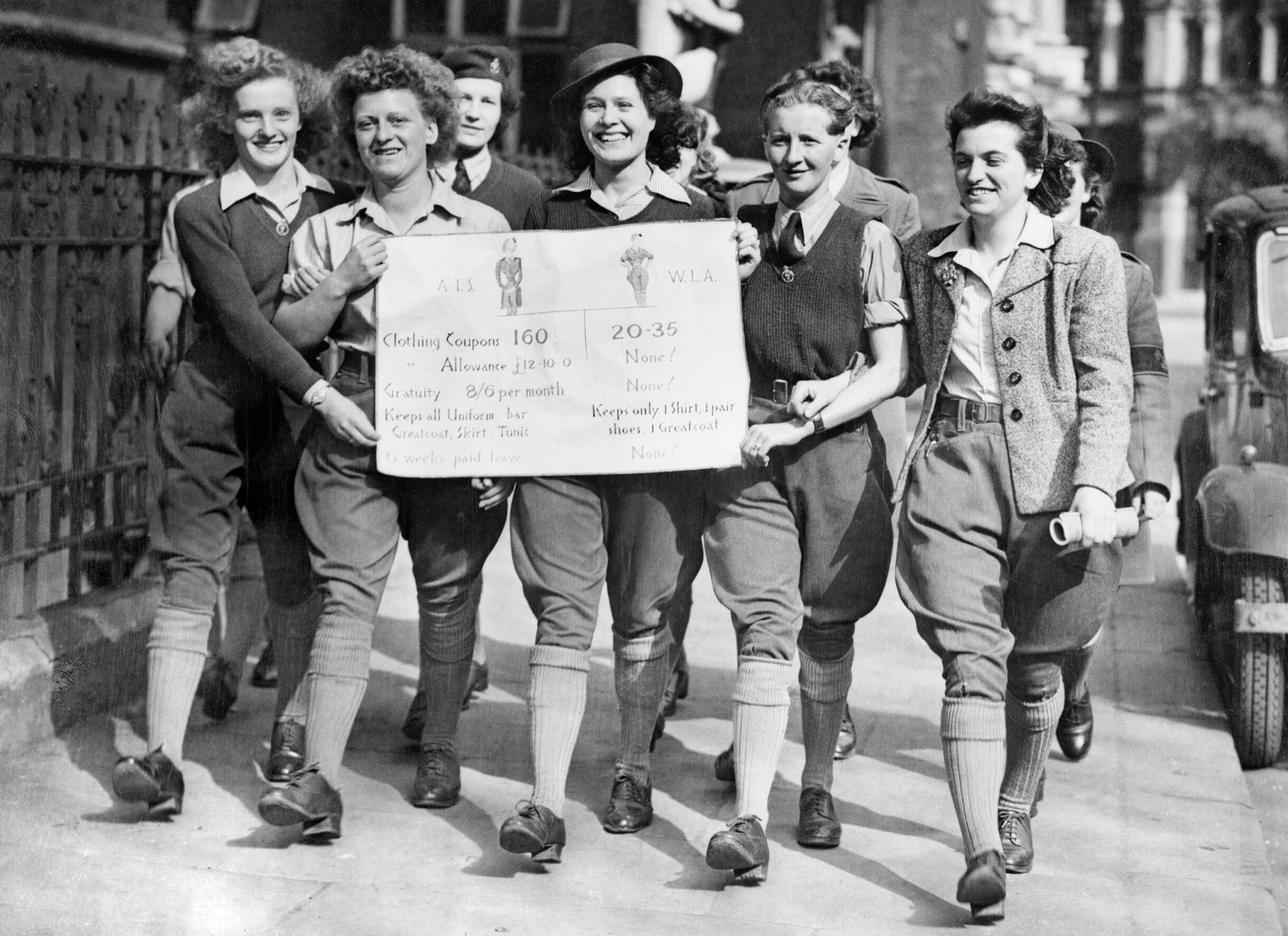 The Women's Land Army in Britain during the Second World War 700 Land Army girls from all parts of the country voicing their grievances at a meeting held in Caxton Hall, London demanding equal pay for equal work. Photo shows: Land Army girls arriving with a protest poster. Left to right, Miss Foster, London; Mrs Lloyd, Birmingham; Miss Brooks, Middlesex; Miss Hill, Yorkshire and Miss Millington, Secretary of the National Charter. The poster compares the allowances and conditions for the ATS with the Land Army.